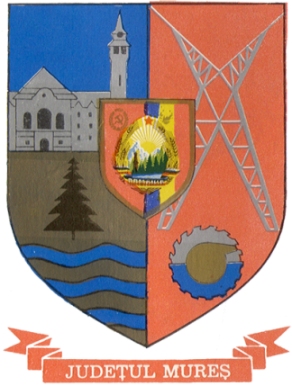 Communist coat of arms of Mureș County, Socialist Republic of Romania.